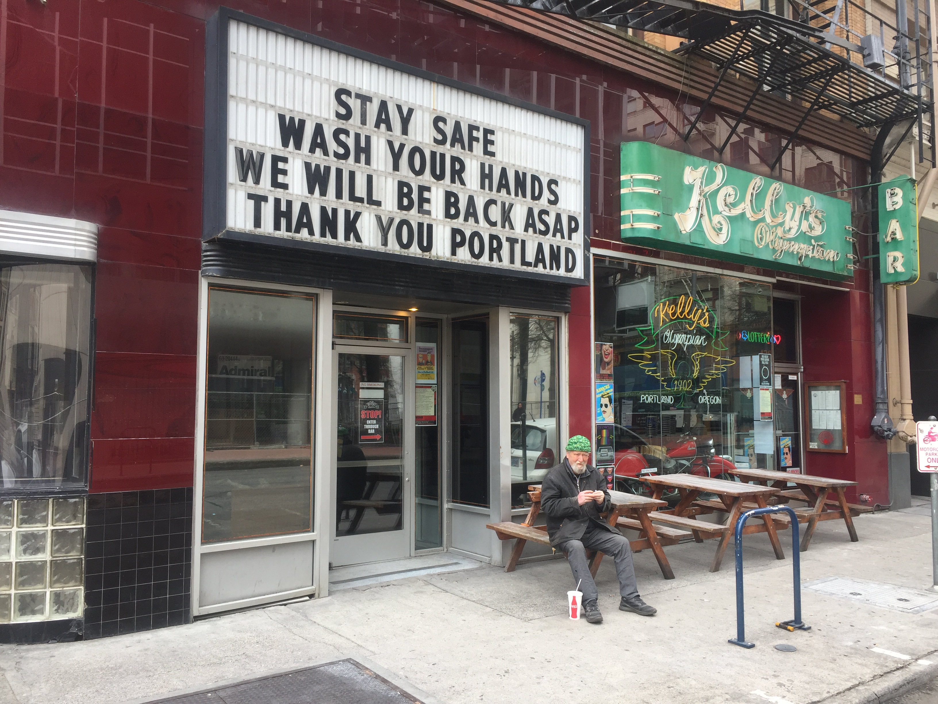 Signs in Portland Oregon warning of COVID-19